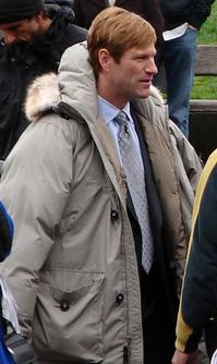 Aaron Eckhart in Seattle, Washington